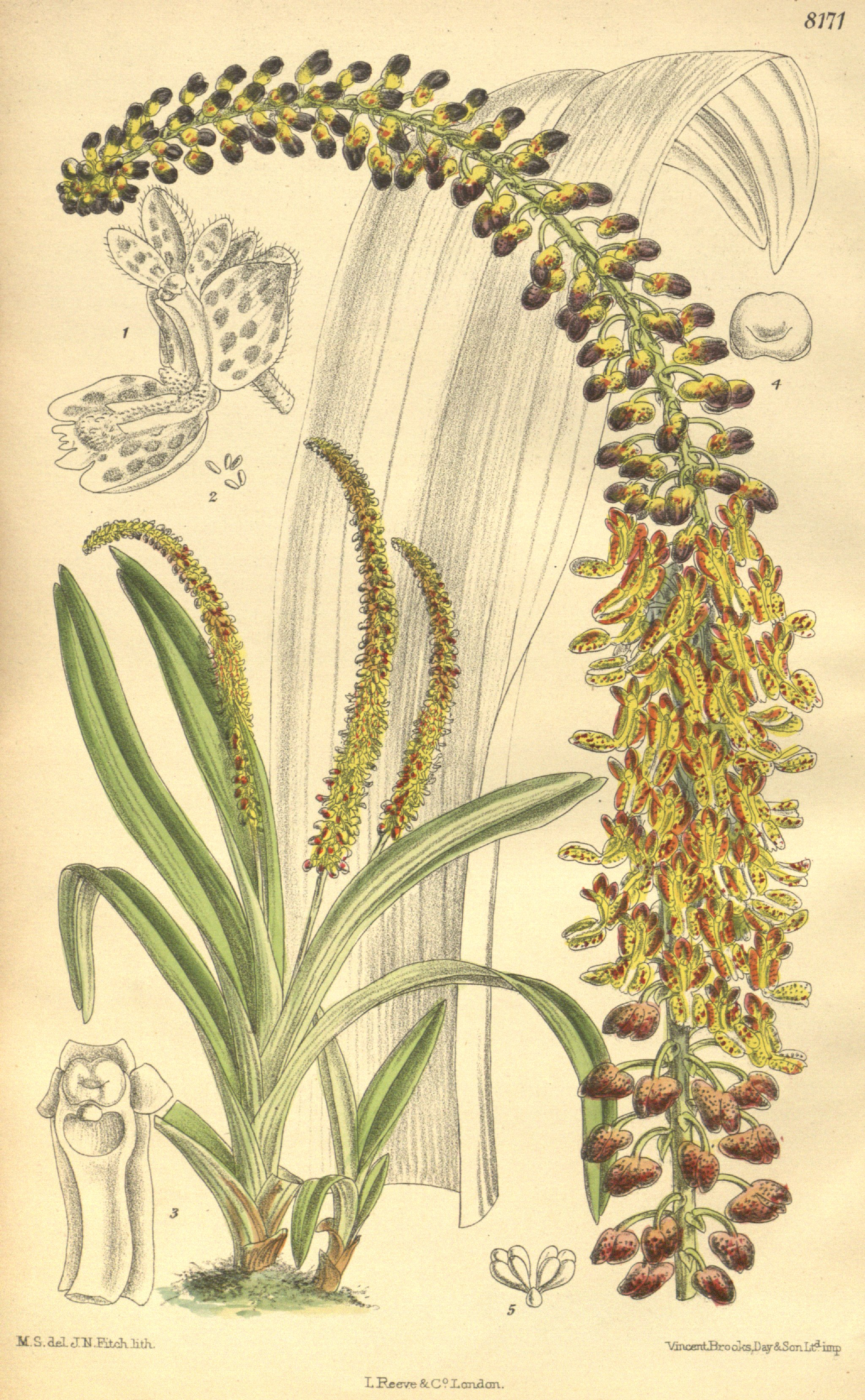 Illustration of Mycaranthes latifolia (as syn. Eria longispica)